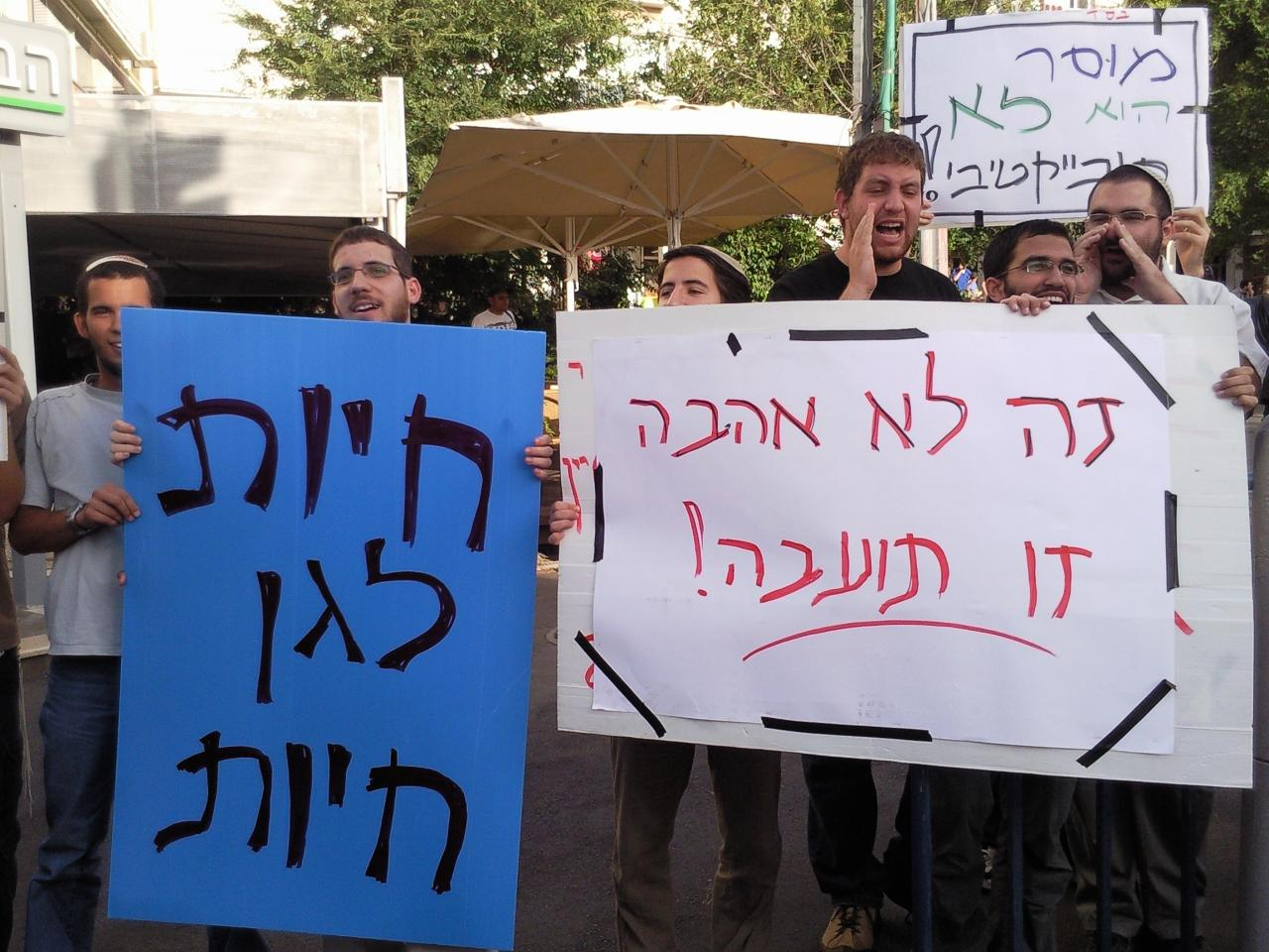 Religious homophobic protestors, during the gay pride parade in Haifa, june 24, 2010. The demonstrators held signs written in Hebrew: "This is not love but an abomination" (the right side); And "Go to the zoo, Animals" (left side)